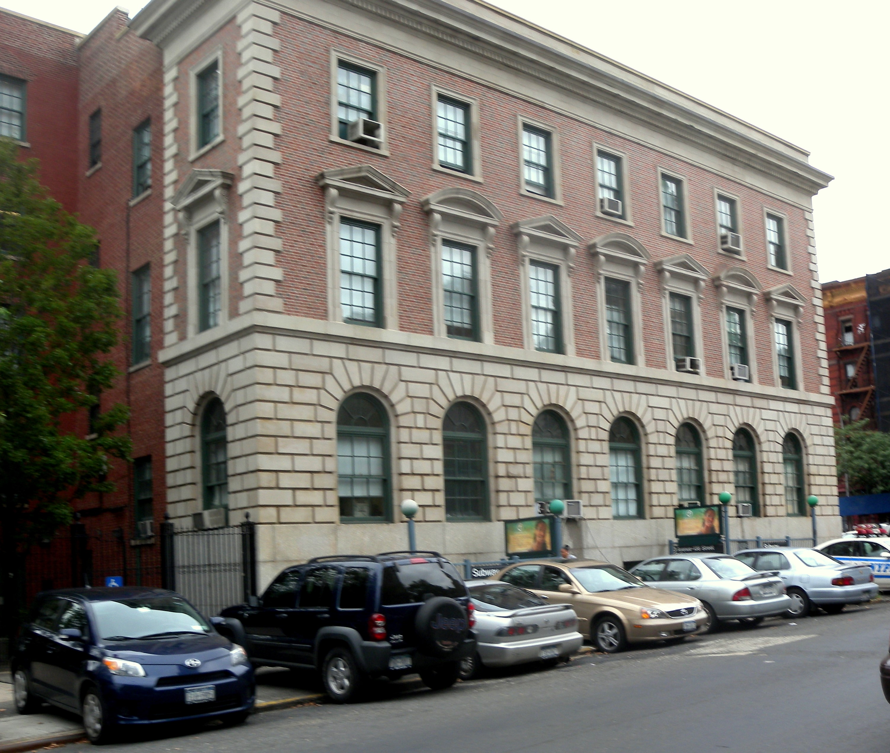 Looking east across E138th St at 40th Precinct (formerly 50th) on a cloudy morning.